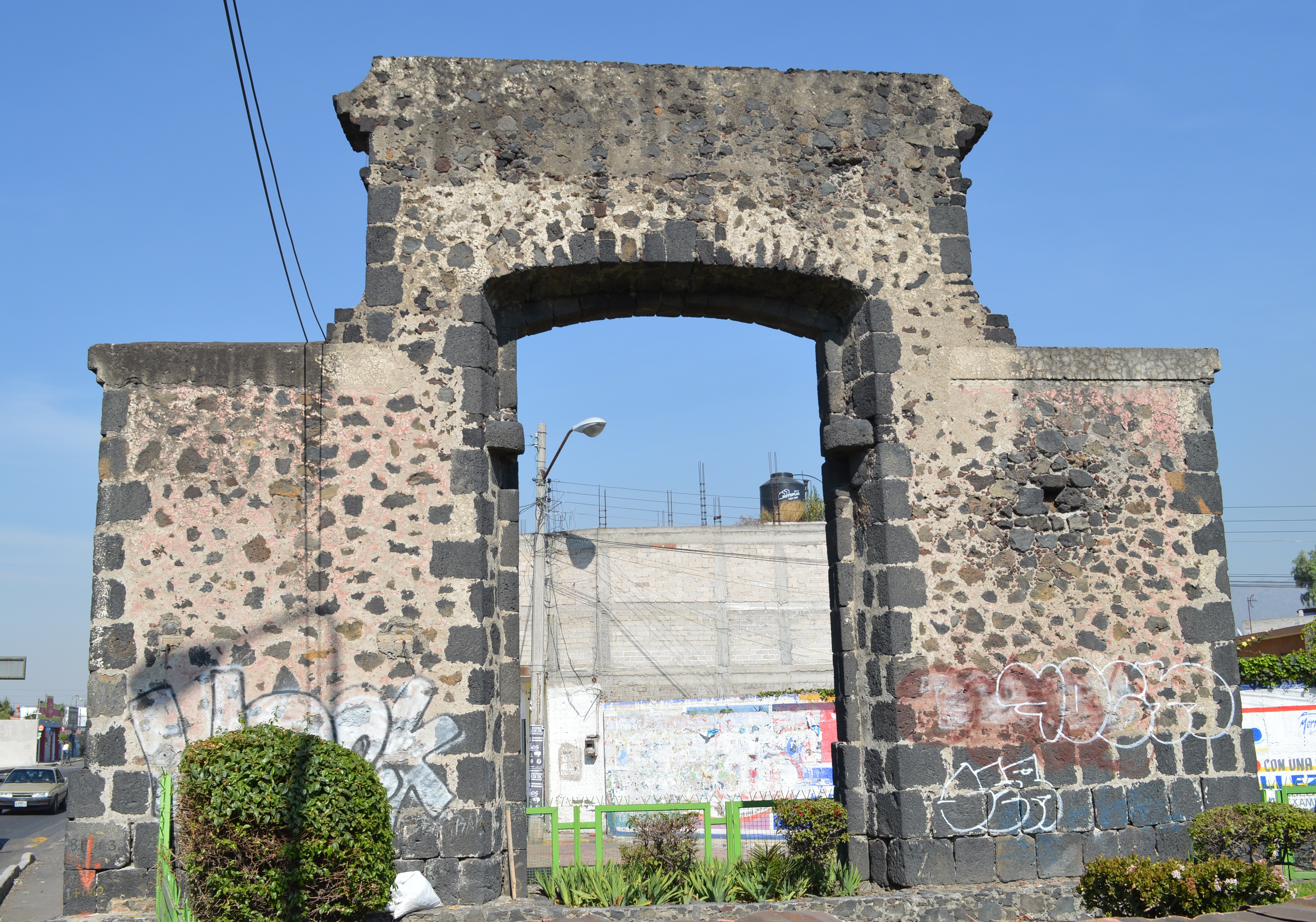 Arched gateway which formerly was the control checkpoint for goods traveling here by canal from farmlands to Mexico City